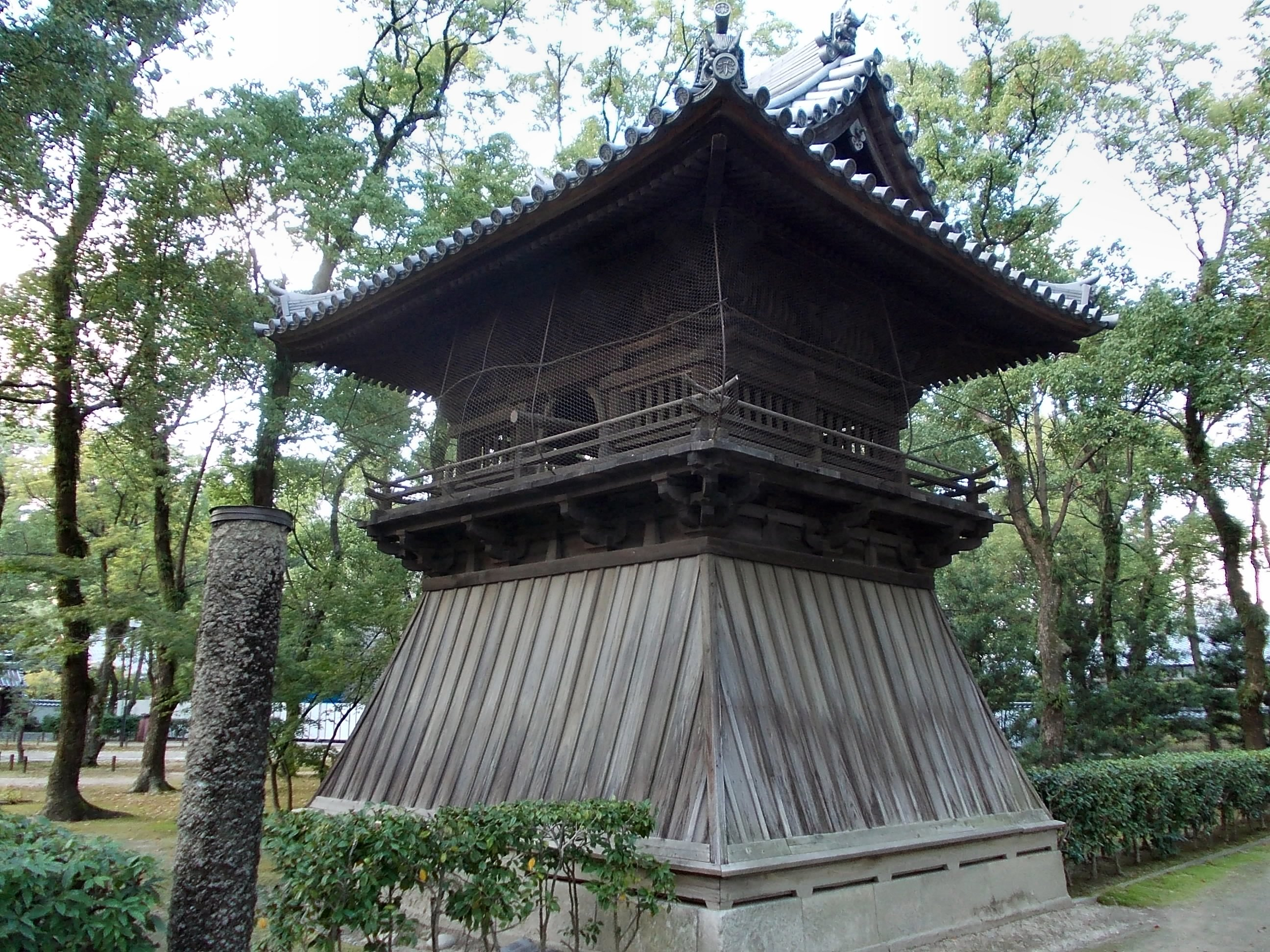 The golden bronze bell of Shofuku-ji Temple, Hakata-ku, Fukuoka, Japan. It is important cultural properties designated by the government.